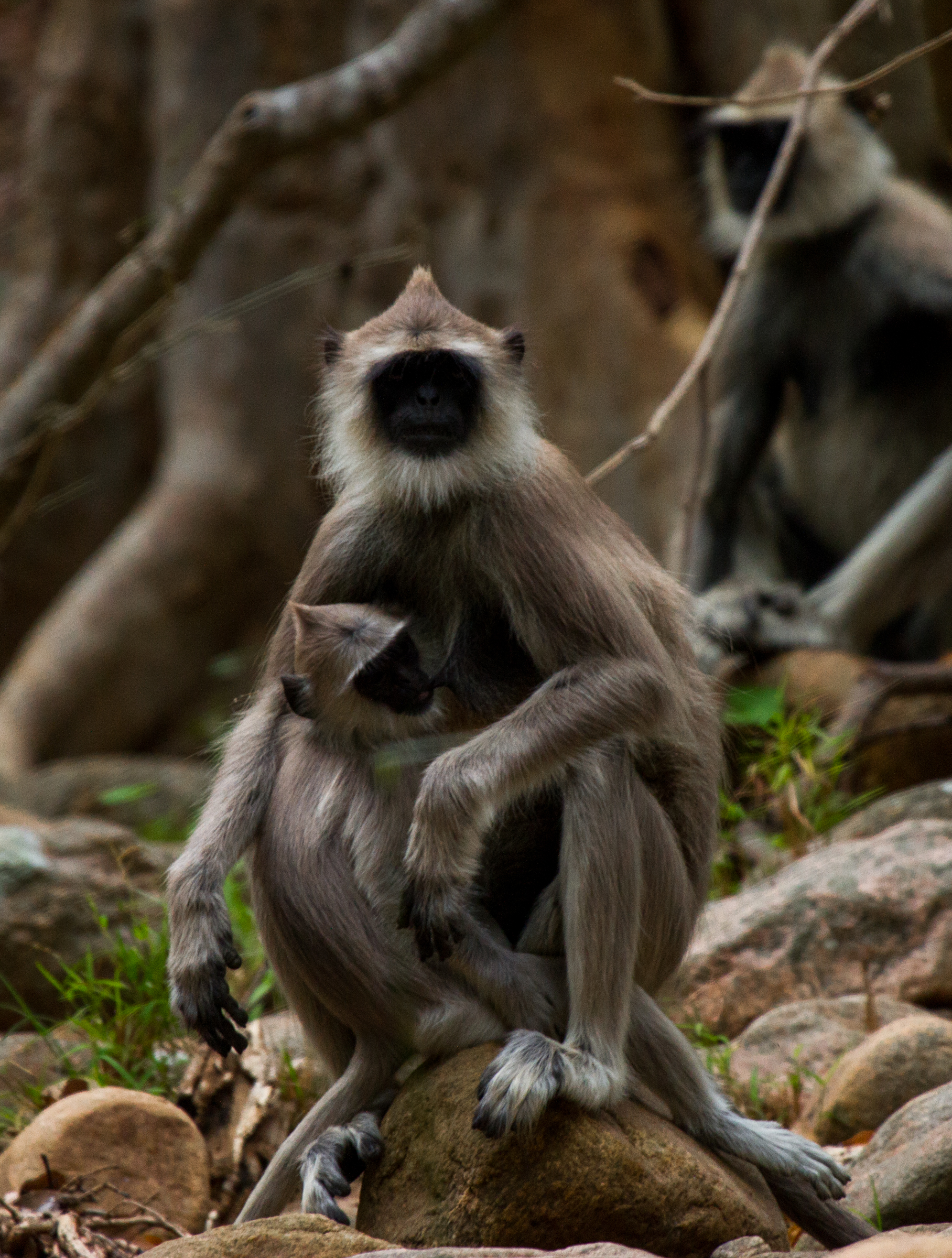 Black-footed gray langur (Semnopithecus hypoleucos); mother feeding child.